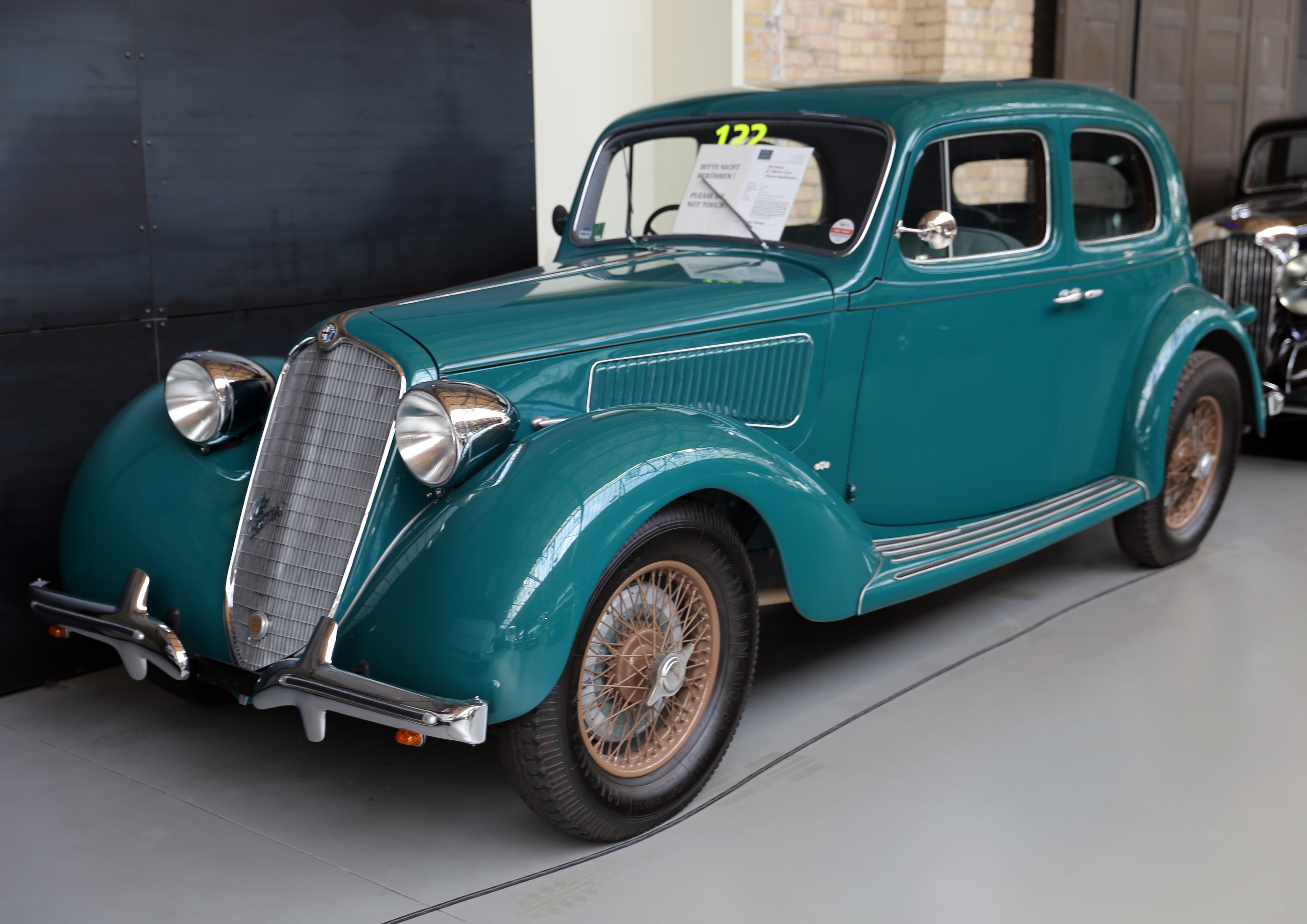 1937 Alfa Romeo 6C 2300B Corto Pescara at Thiesen (Classic Remise Berlin). Rare to see an unmolested pre-war saloon Alfa these days. Chassis number 813070, competed in the historic Mille Miglia in 2016, driven by Germans Ralph Dombacher and Frank Schnellert. Correct color. 95PS, Pescara package included twin carbs, spoked wheels, shorter gearing, and various other power-up bits. This model was built from 1935 until 1937 in 120 examples. The "B" means that it has independent suspension, with an obvious swing-axle rear. Wheelbase 3000mm, tread 1440/1460mm front/rear. 1380kg.